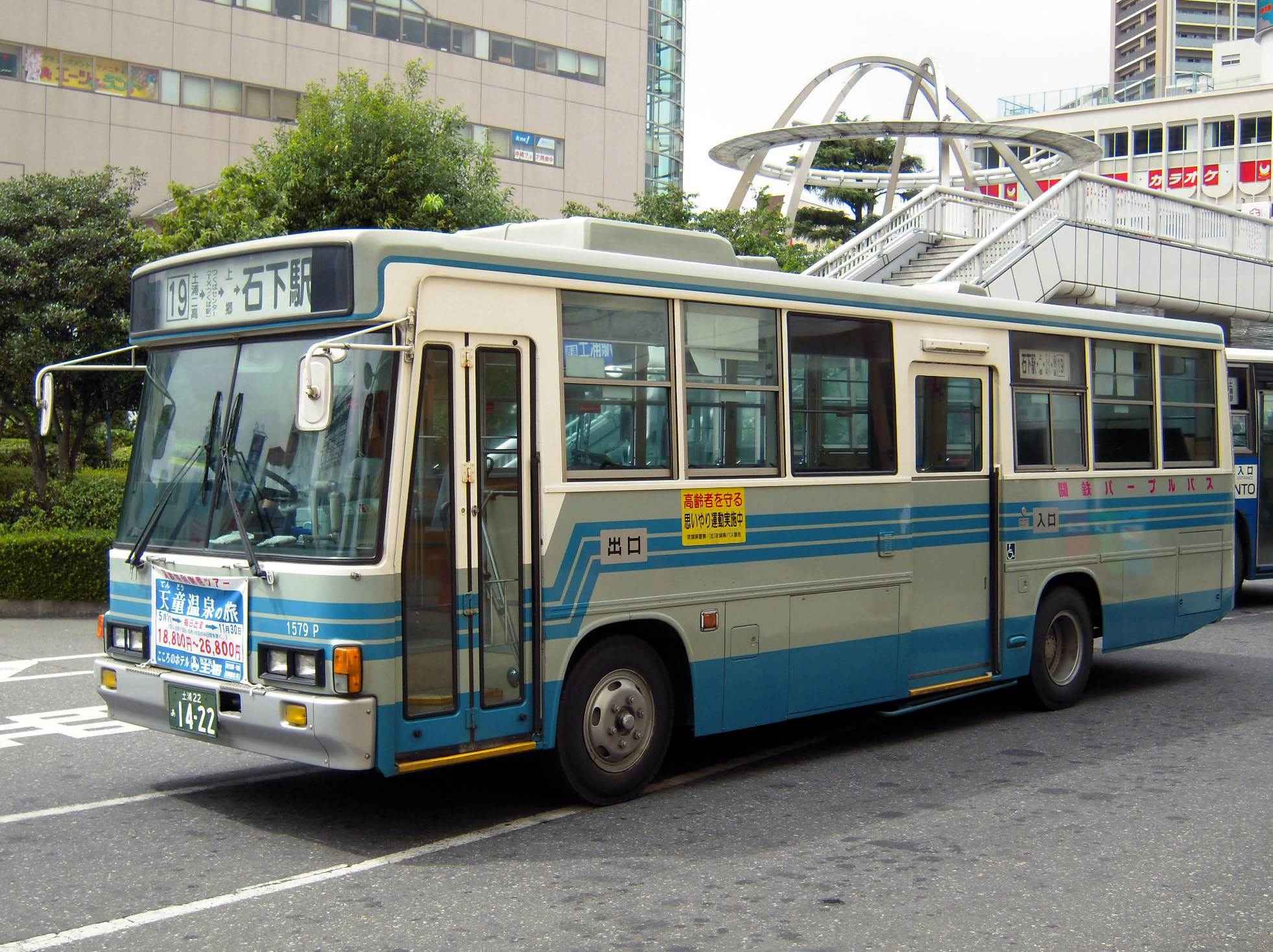 Kantetsu perple bus Isuzu Journey K (U-LR332J)